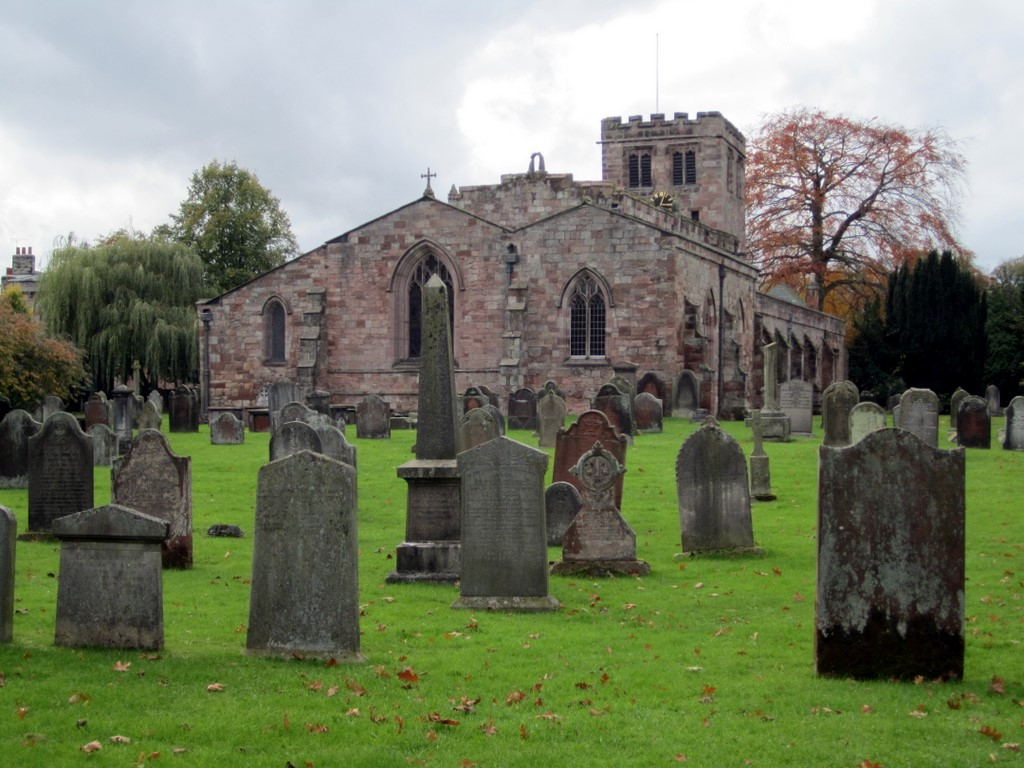 Photograph of St Lawrence's Church, Appleby from the east